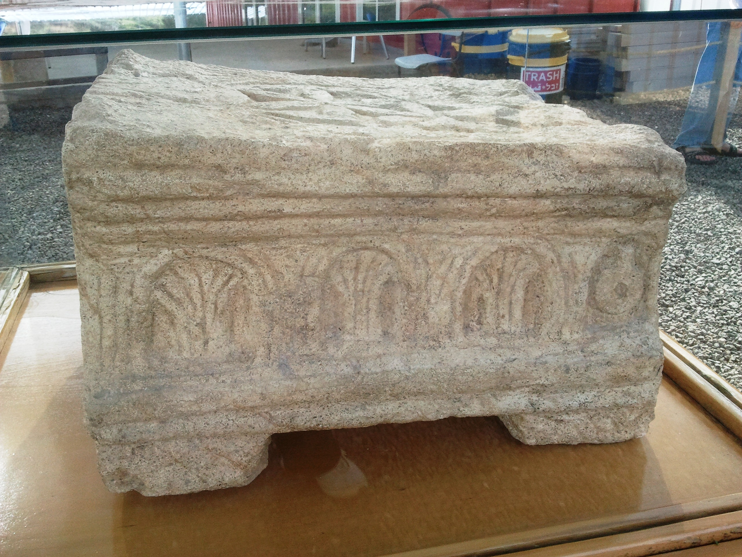 Magdala is the name of ancient town located on the shore of the Sea of Galilee